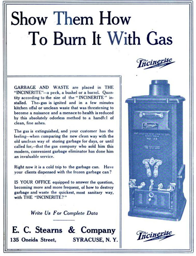 E. C. Stearns & Company - Incinerite